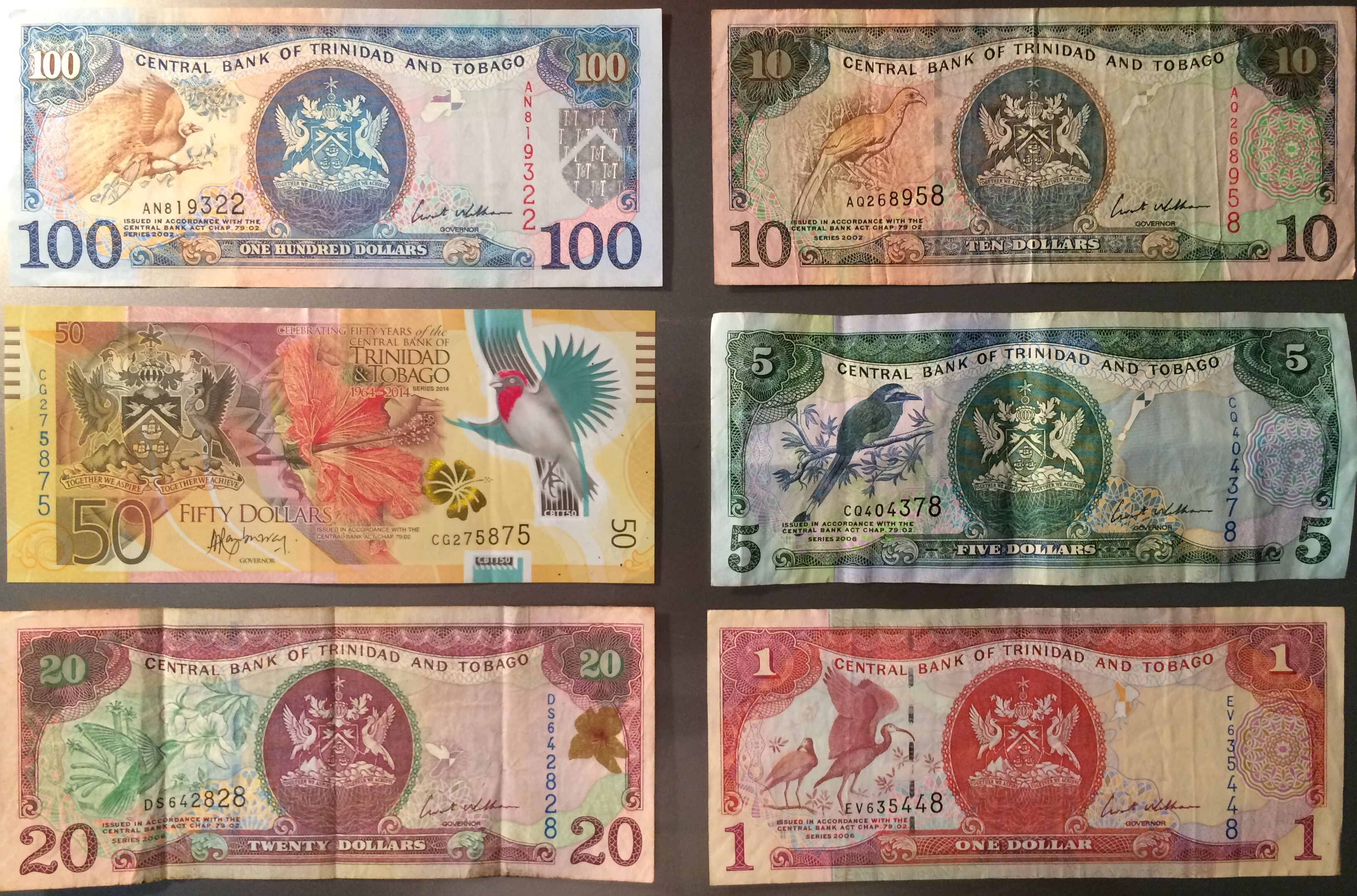 Trinidad and Tobago $1, $5, $10, $20, $50, and $100 banknotes